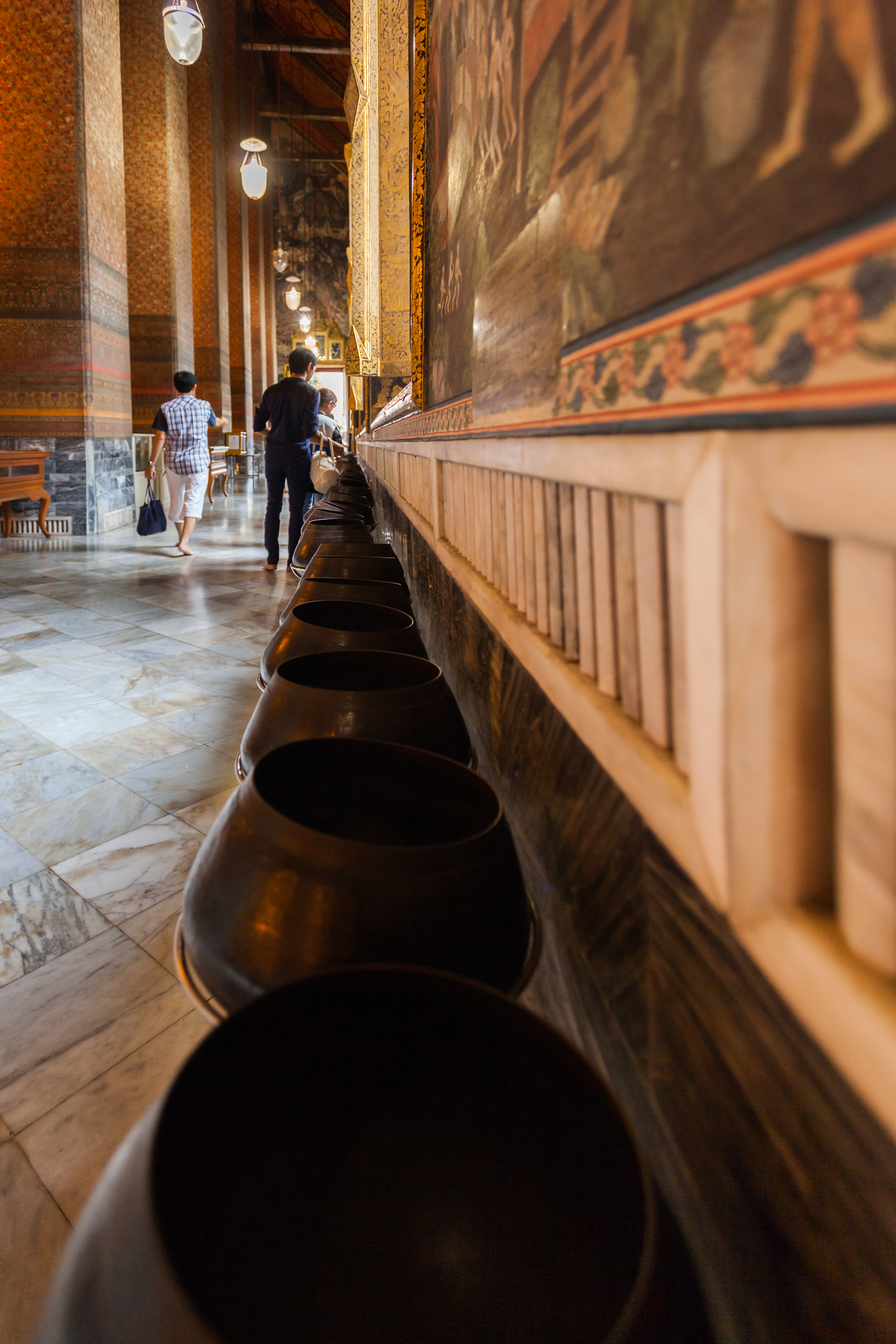 Jars in the Temple of the Reclining Buddha statue, Wat Pho, Bangkok, Thailand